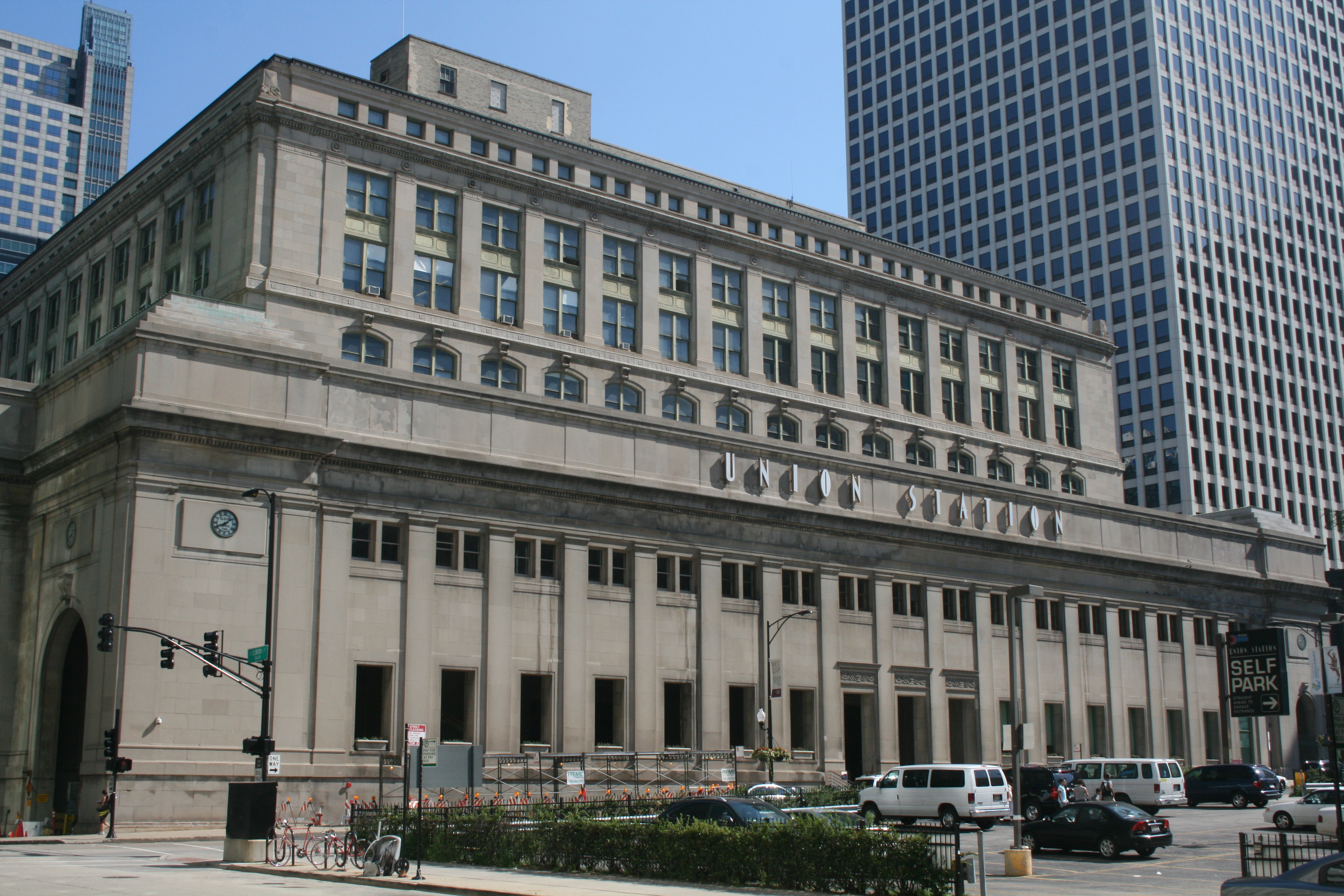 The headhouse and Great Hall at Chicago Union Station. Connected by a tunnel under Canal Street to the underground platform level.